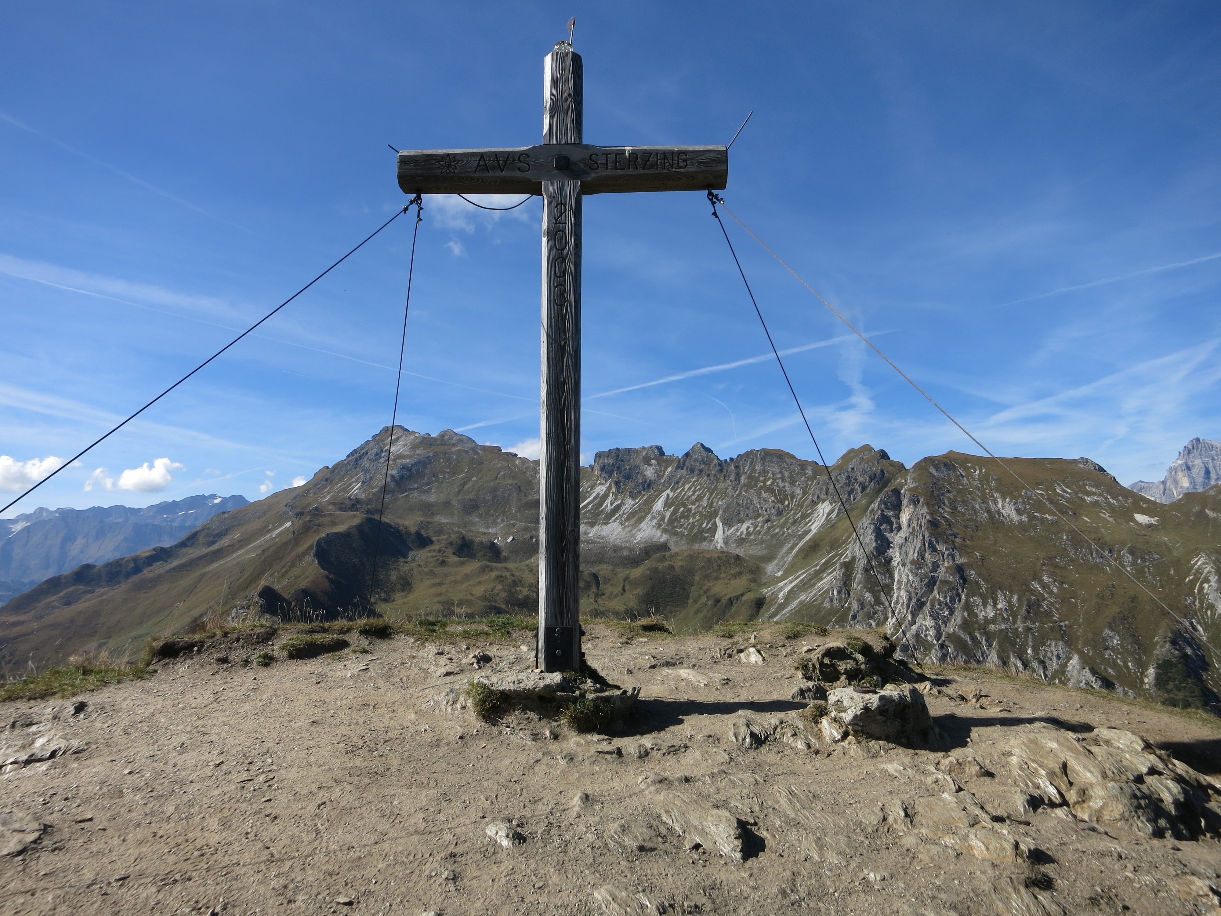 On top of mountain Rosskopf near Sterzing, Suedtirol